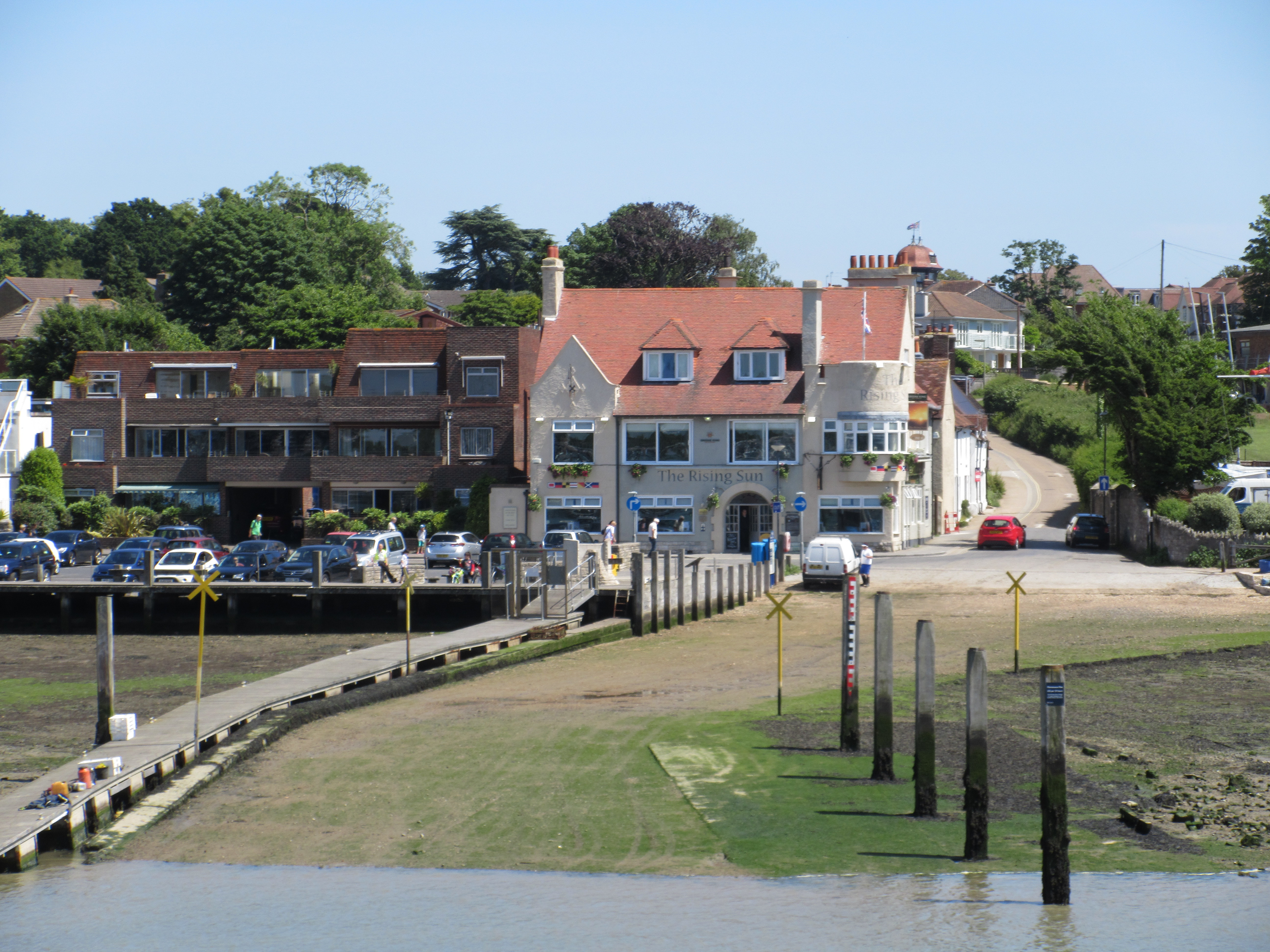 Warsash The Rising Sun Public House at low tide